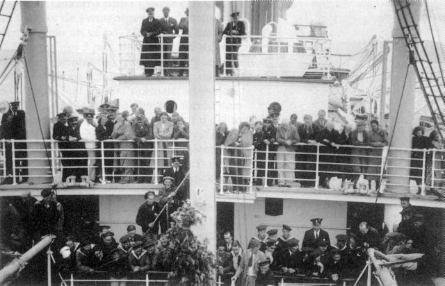 Passengers onboard swedish passengership "Patricia" celebrating Midsummer anchored at Torshavn, Faeroes.